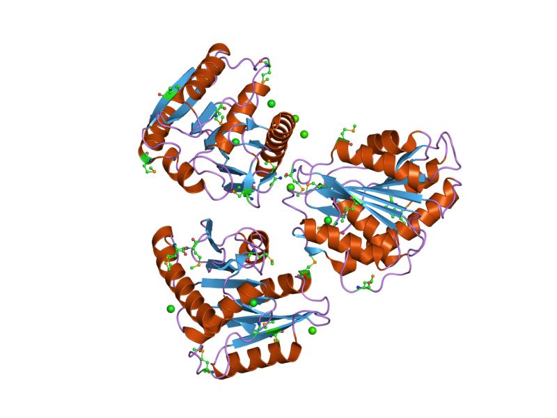 Cartoon representation of the molecular structure of protein registered with 2h1i code.